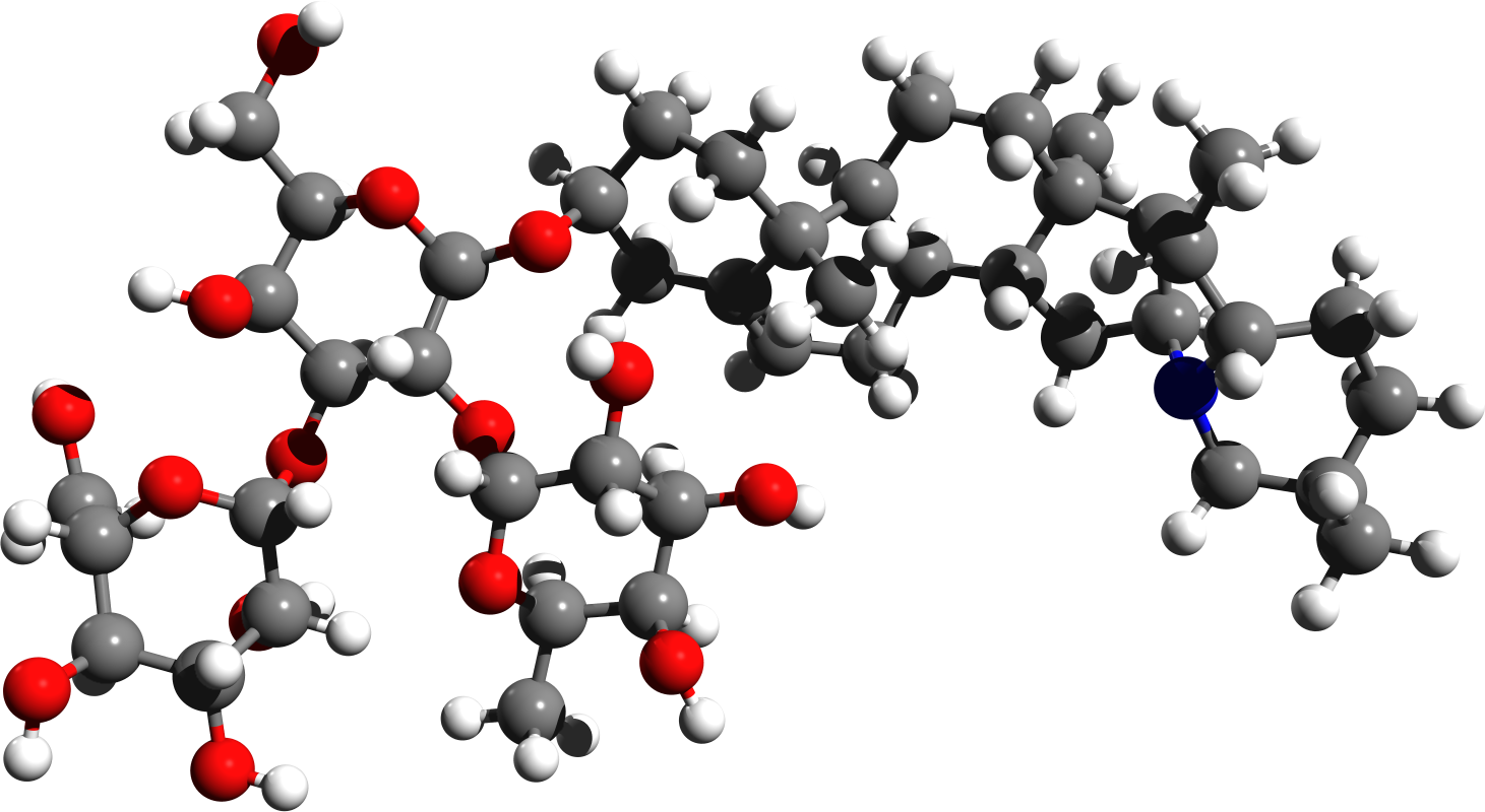 Solanine structure